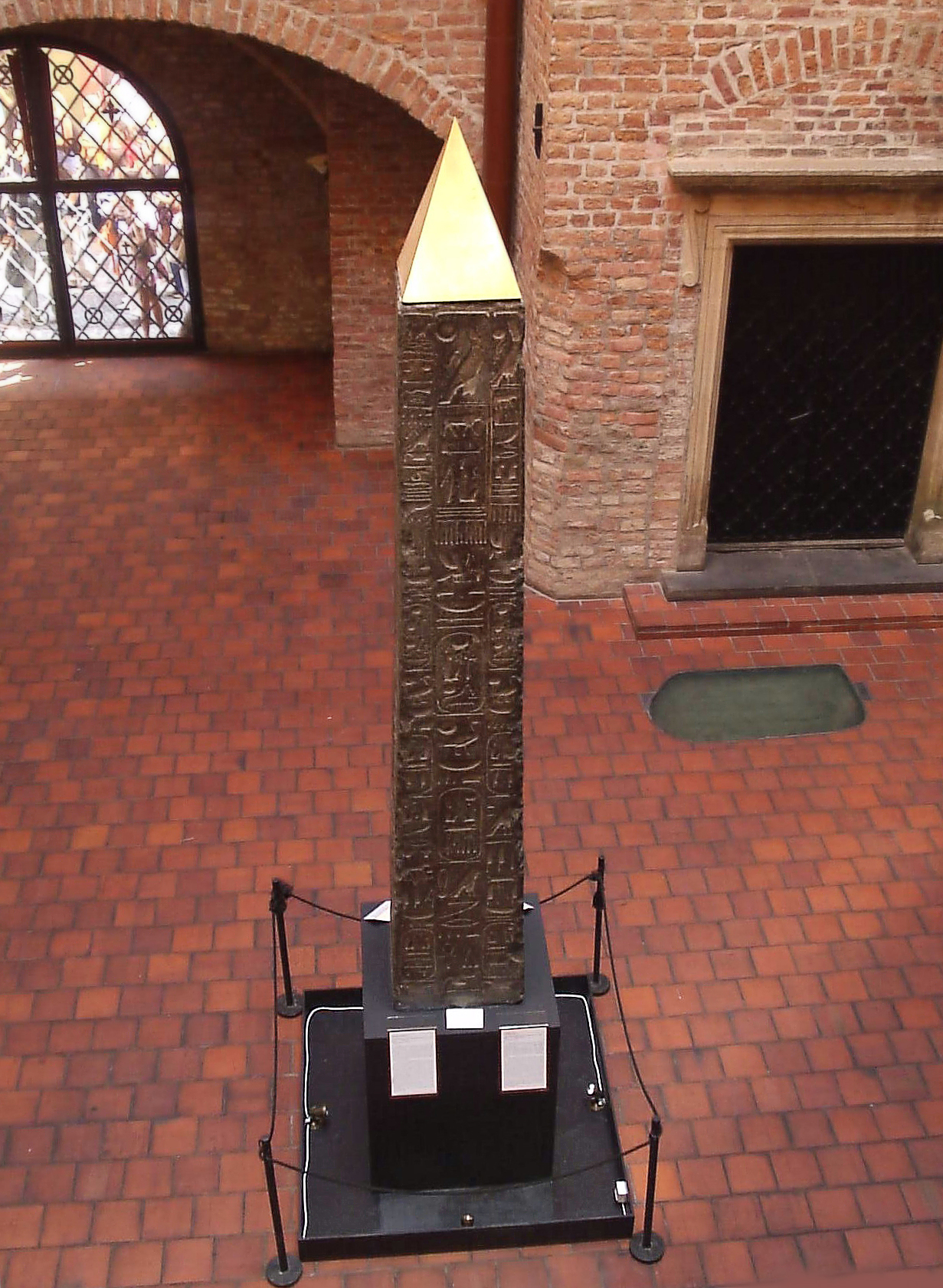 Obelisk of Ramzes II in Archaeological Museum - Palace of Górka Familly in Poznań